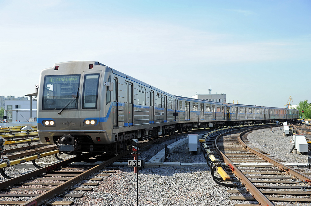 Metro electric train 81-717.6/714.6. Pechatniki depot of Moscow Metro